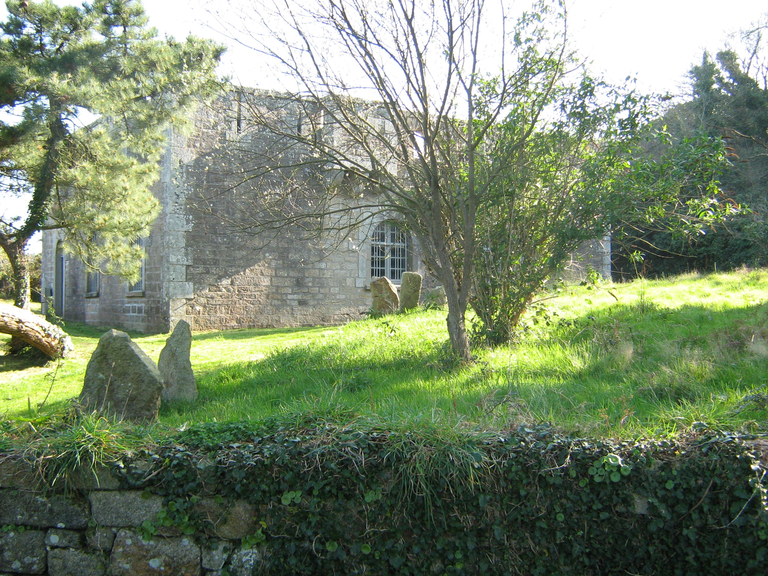 Tristan Island, Douarnenez, France: the fort